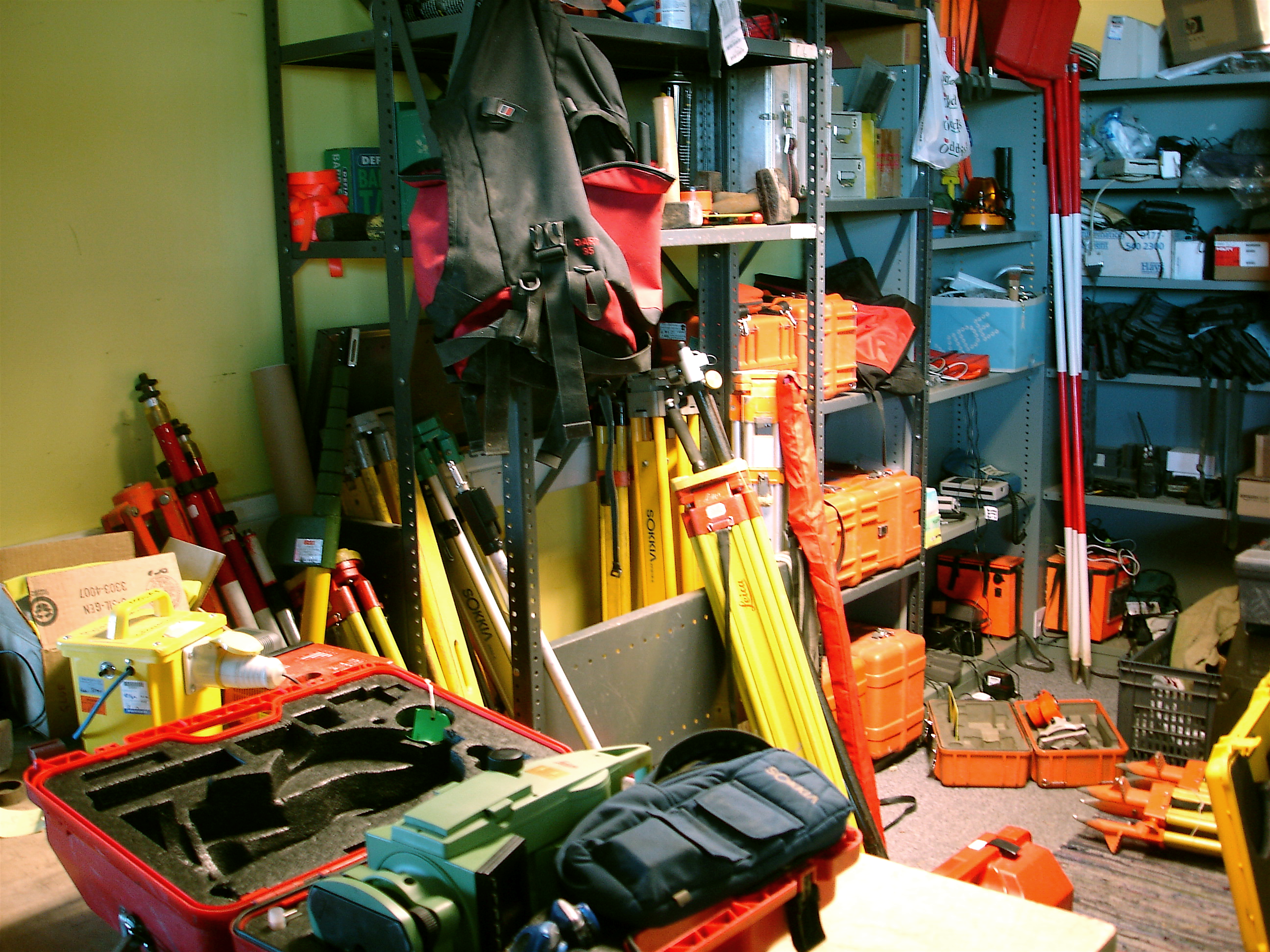 survey gear